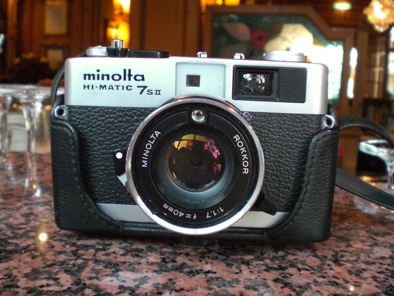 A close-up of the Minolta Hi-Matic 7S II. Own Work. See also